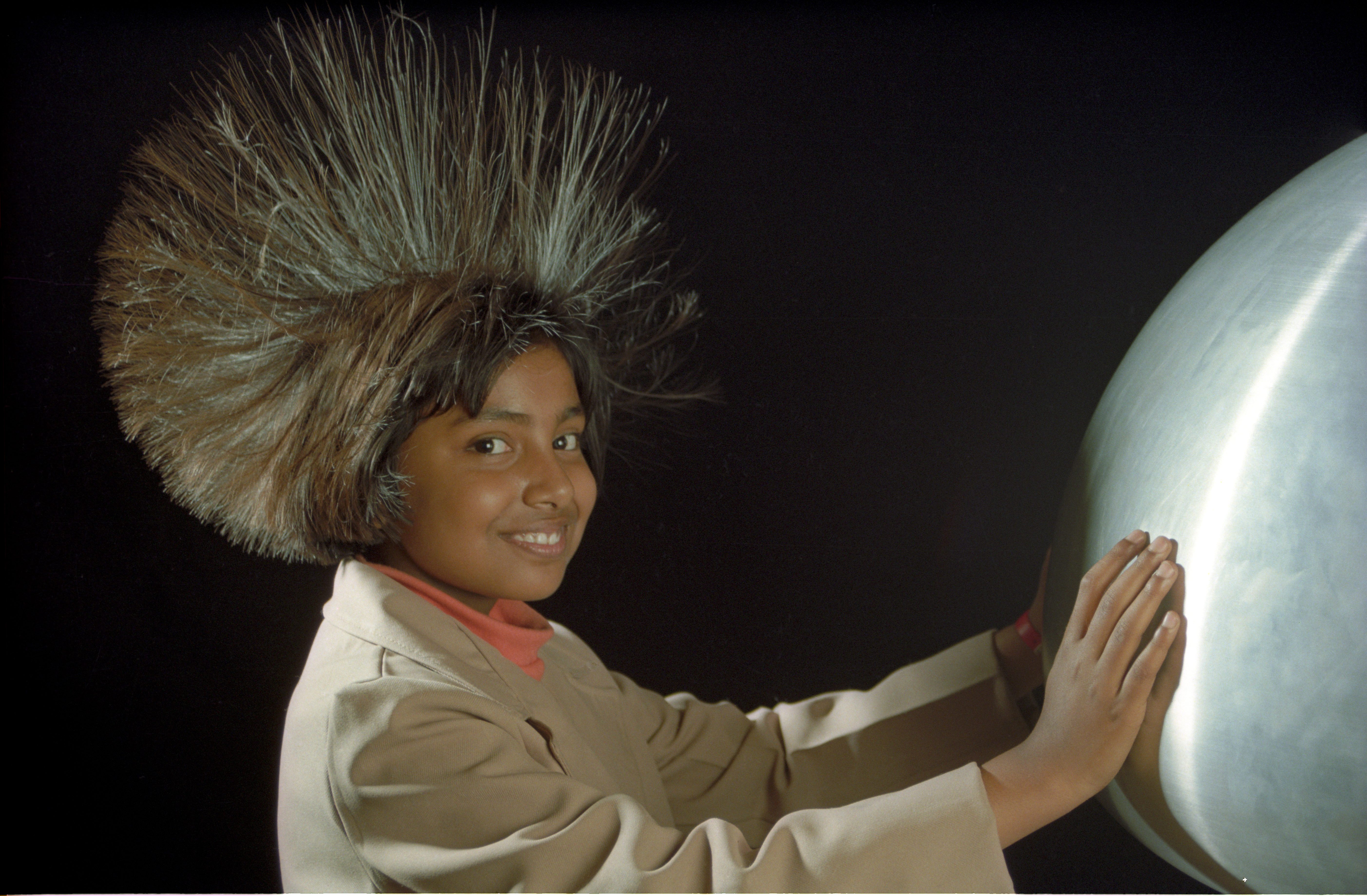 The upcoming Science City at the Dhapa dumping ground in Calcutta, that was developed by the National Council of Science Museums (NCSM). Personality rights warningAlthough this work is freely licensed or in the public domain, the person(s) shown may have rights that legally restrict certain re-uses unless those depicted consent to such uses. In these cases, a model release or other evidence of consent could protect you from infringement claims.